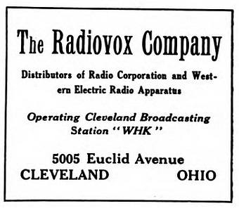 Advertisement for the Radiovox company of Cleveland, Ohio, which included promotion for its radio station, WHK.